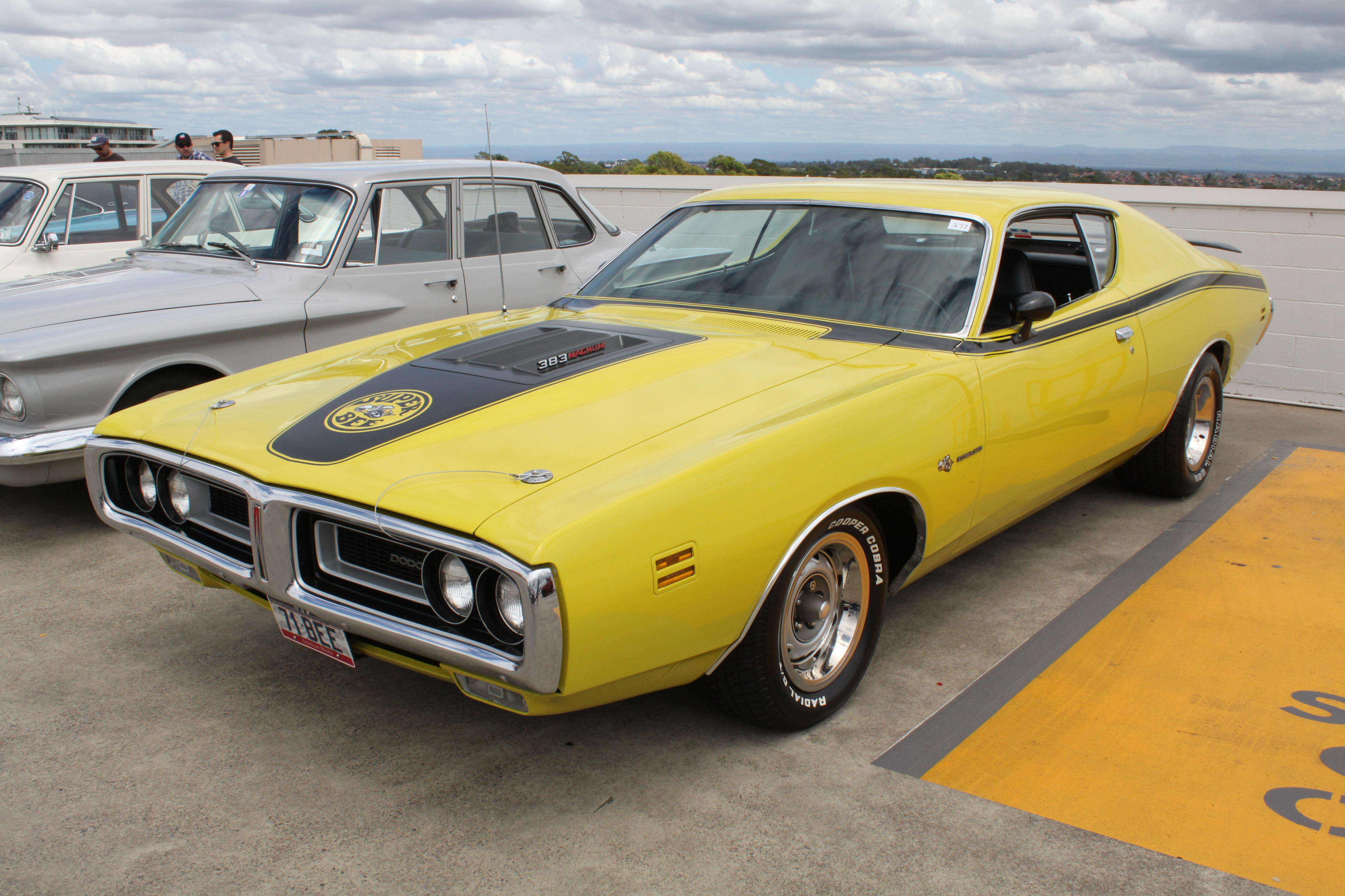 All American Car Show, Castle Hill, NSW January 2016